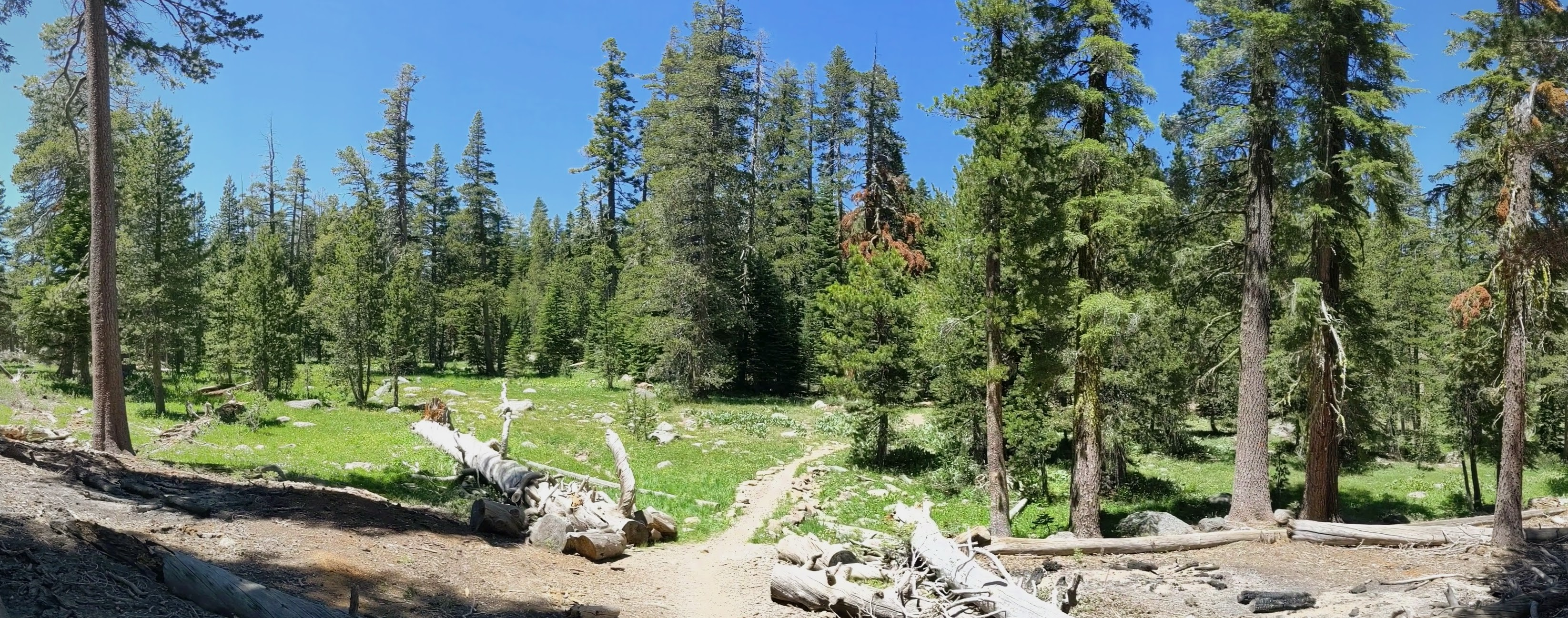 Approaching Watson Creek headwaters meadow on the Tahoe Rim Trail, walking north from Watson Lake (California)